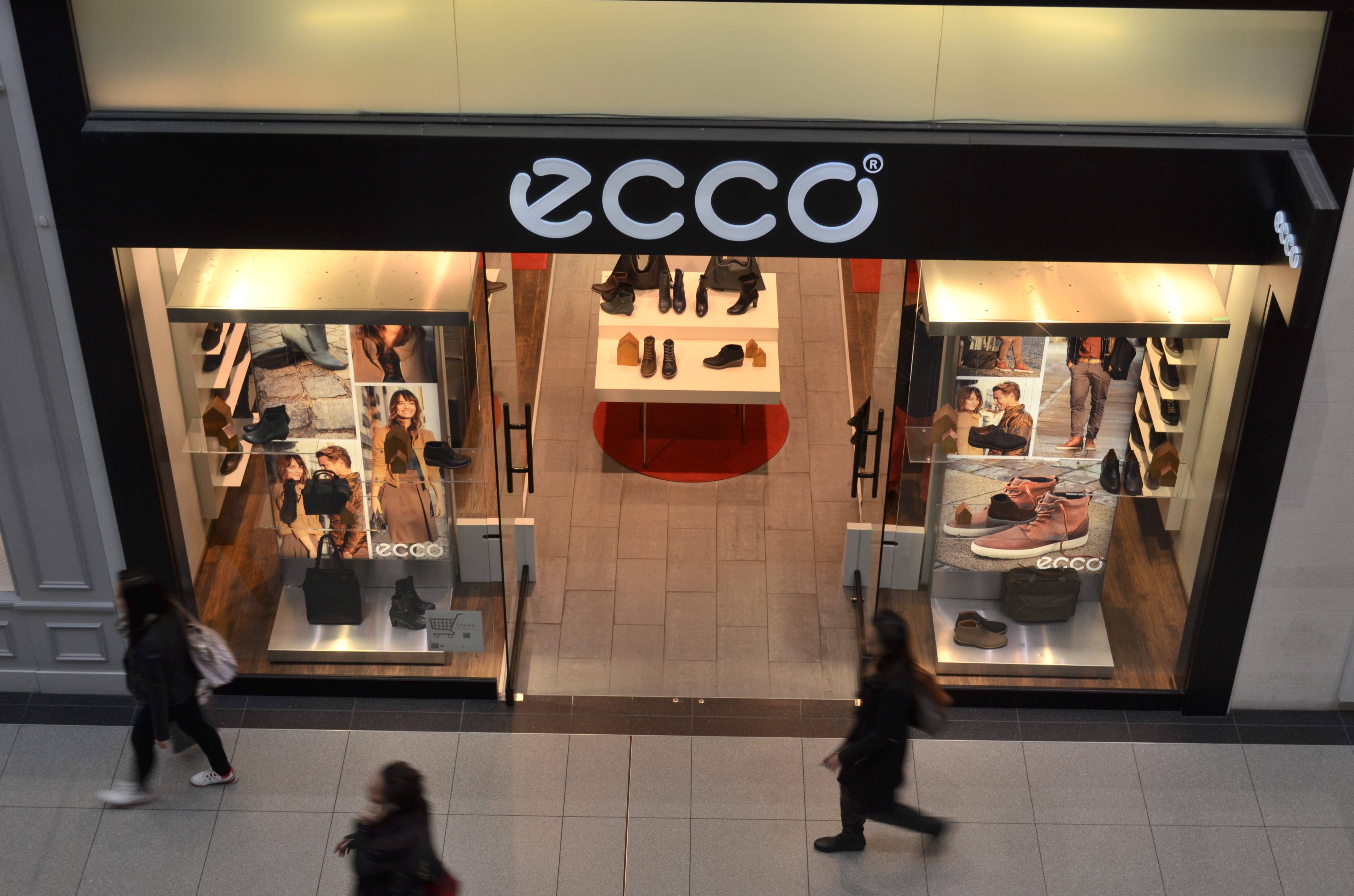 ECCO at Toronto Eaton Centre